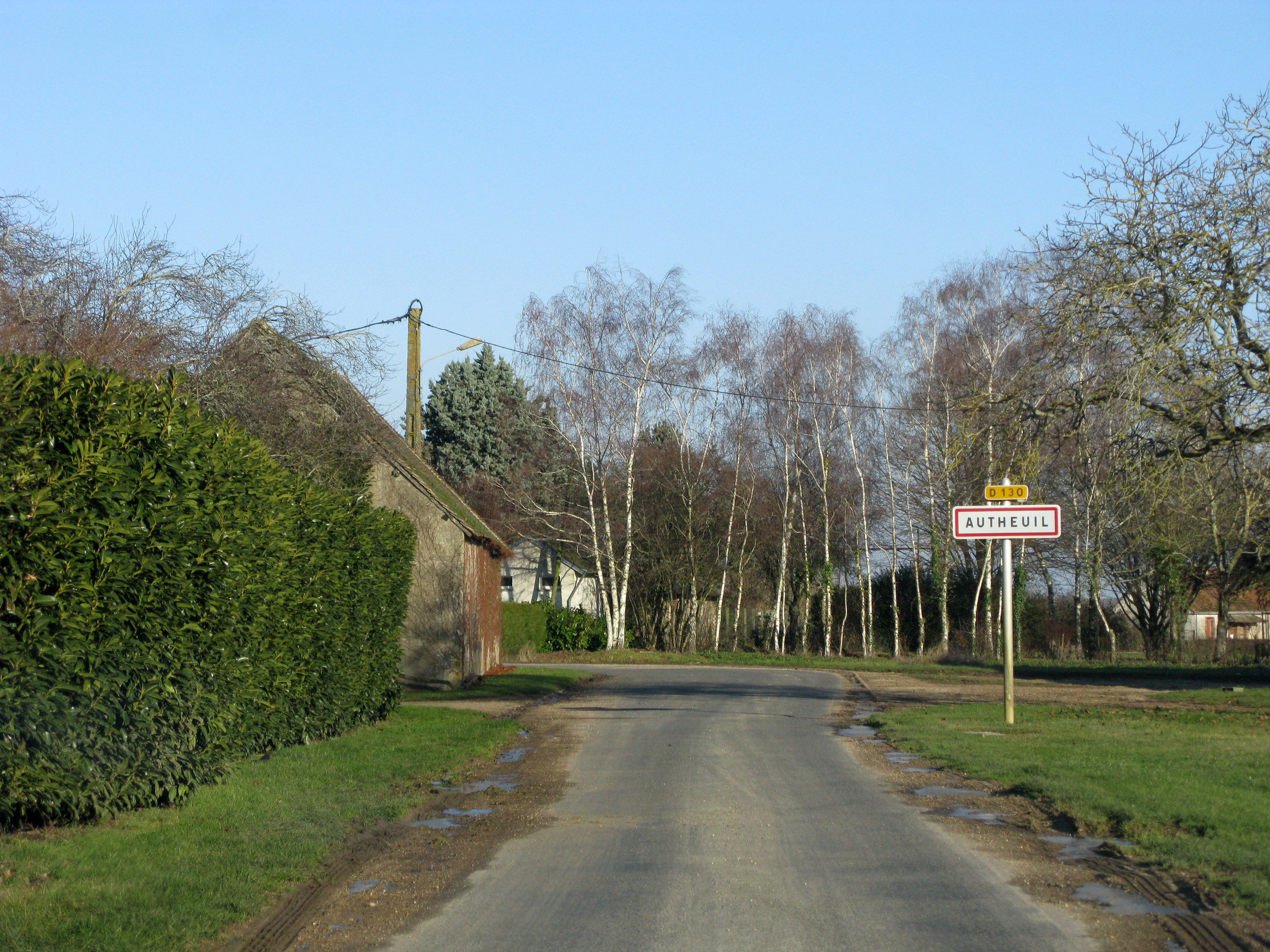 Entrance to the village of Autheuil in the French departement of the Eure-et-Loir, as seen when coming from Cloyes-sur-le-Loir over the route departmentale D130.